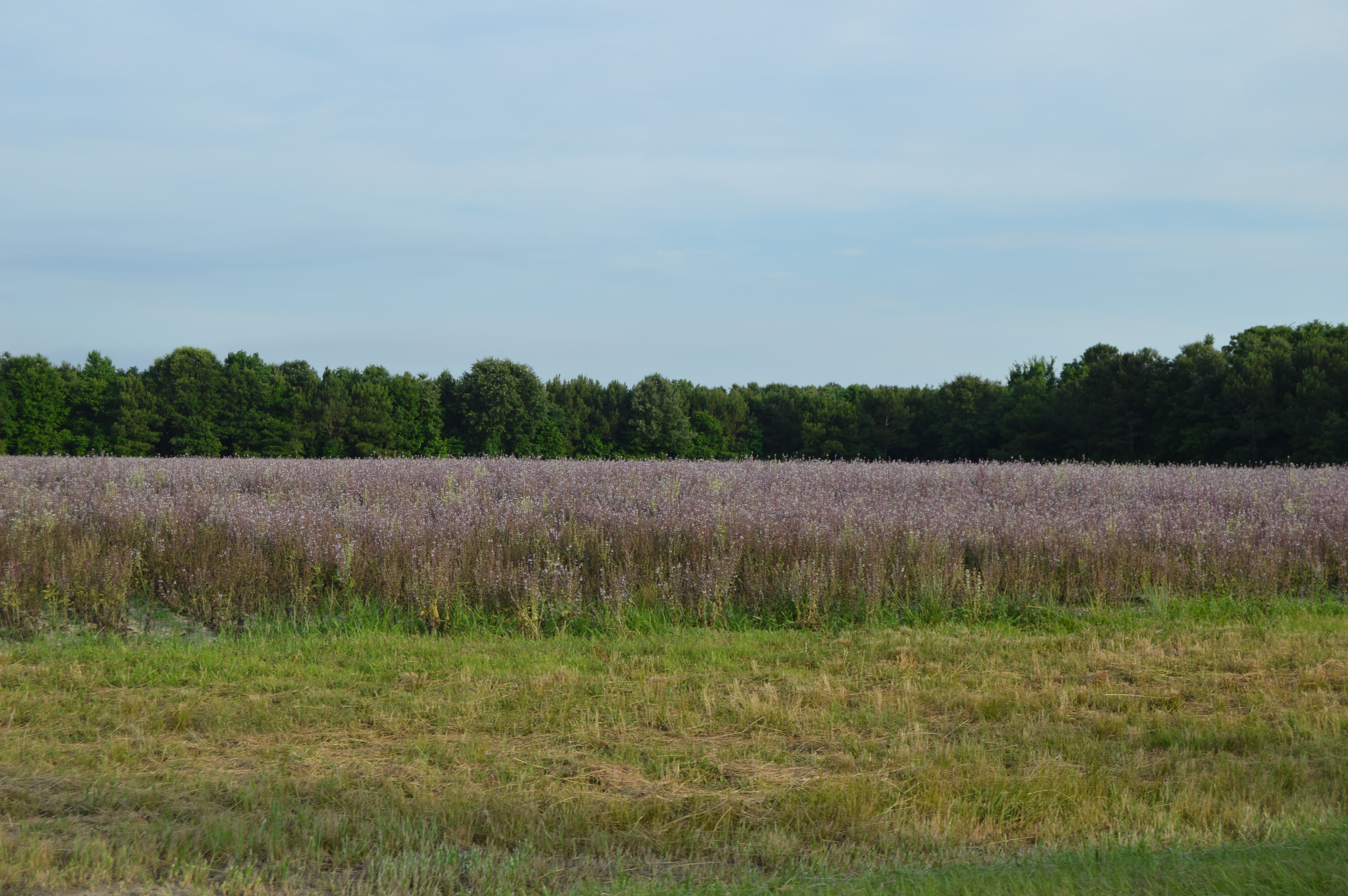 A farm field of Salvia sclarea, located along North Carolina Highway 461 west of Cofield in Winton Township, Hertford County, North Carolina, United States.